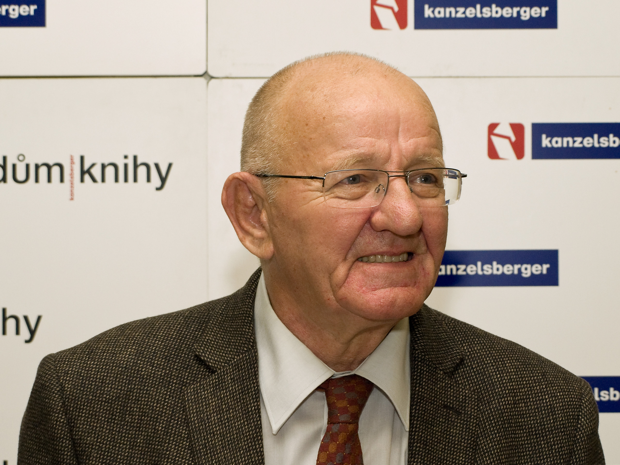 Czech journalist-feuilletonist Rudolf Křesťan in Prague during introduction of his book